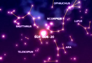 An image showing the location of the magnetar SGR 1806-20. It is about 50,000 light-years away in the constellation Sagittarius.